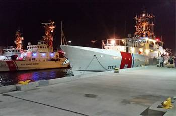 The Richard Dixon moored next to smaller cutters, in San Juan, Puerto Rico, 2015-06-24. Original caption: “The fast response cutter Richard Dixon (right) docks for the first time in San Juan, Puerto Rico, June 24, 2015, next to Coast Guard Cutter Drummond (left), one of the 110-foot Island-class patrol boats the FRCs are replacing. Richard Dixon is the first of six FRCs to be stationed in San Juan. (USCG photo by Allen Harker ”